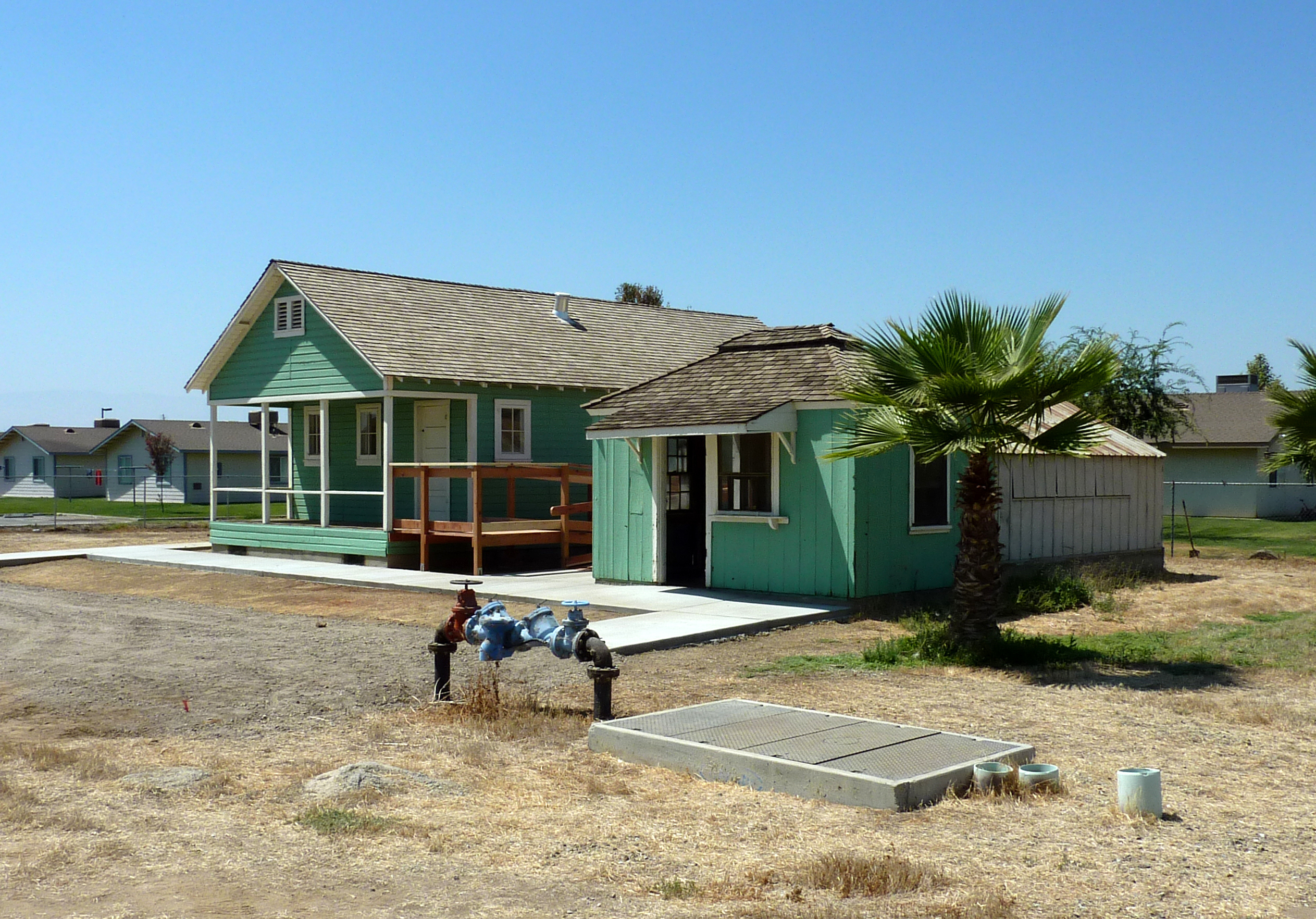 Library (left) and Post Office (right) of the Weedpatch Camp (also known as the Arvin Federal Government Camp and the Sunset Labor Camp) — in outer Bakersfield, southern San Joaquin Valley, California. A 1930s FSA—Farm Security Administration project built by the WPA—Works Progress Administration. The plight of the Okies and a description of Weedpatch Camp were chronicled by novelist John Steinbeck in his book The Grapes of Wrath. On the National Register of Historic Places in Kern County, California.